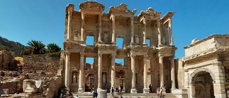 Ephesus Selçuk, Izmir Province, Turkey